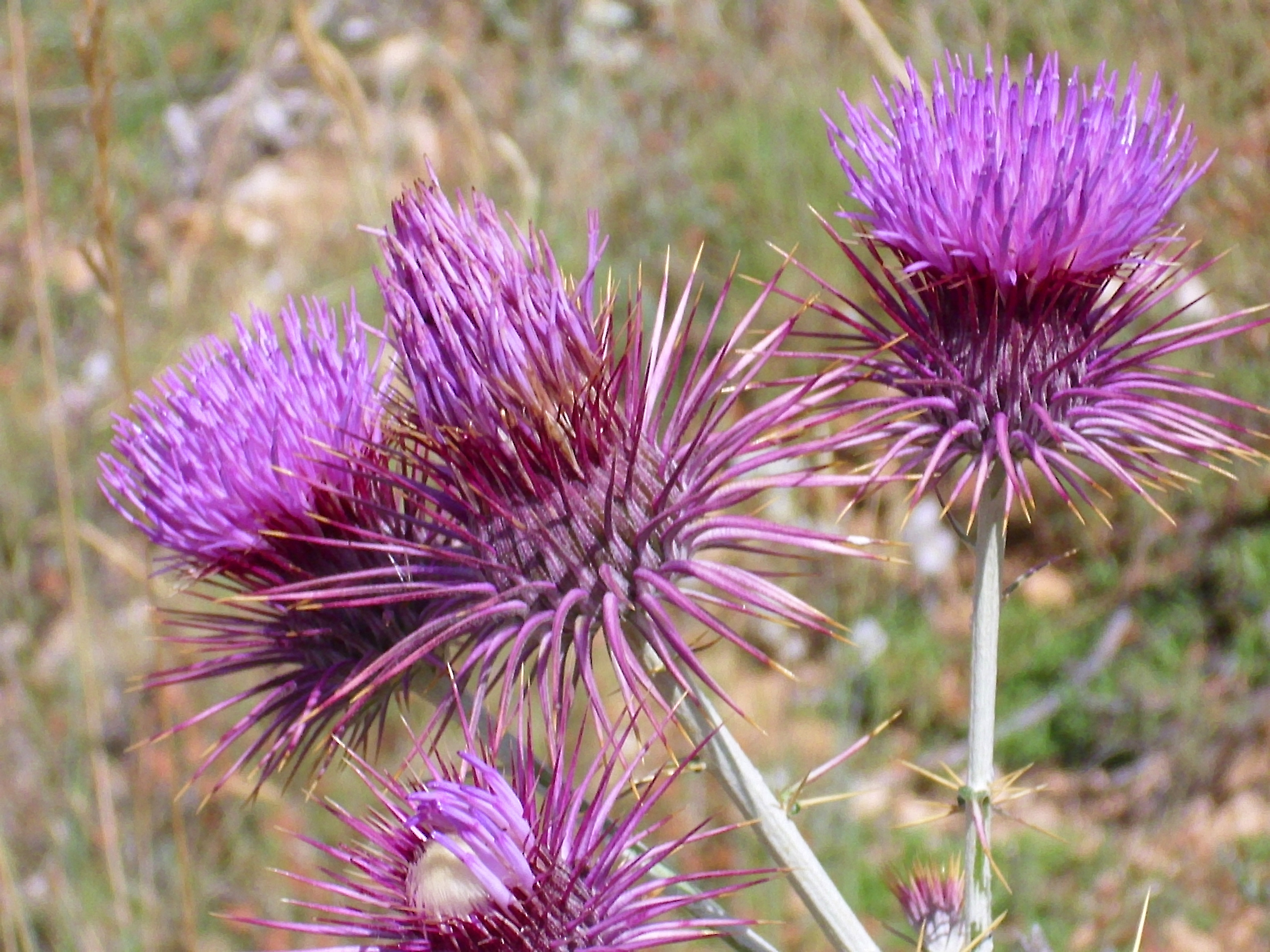 Ptilostemon hispanicus close up, in Sierra de Alfacar y Víznar, Granada, Spain.